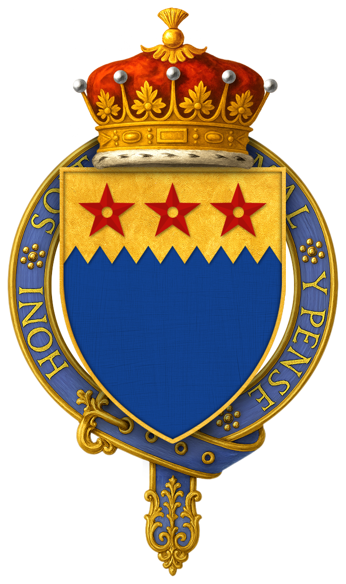 Coat of Arms of Charles Moore, 11th Earl of Drogheda, KG, KBE